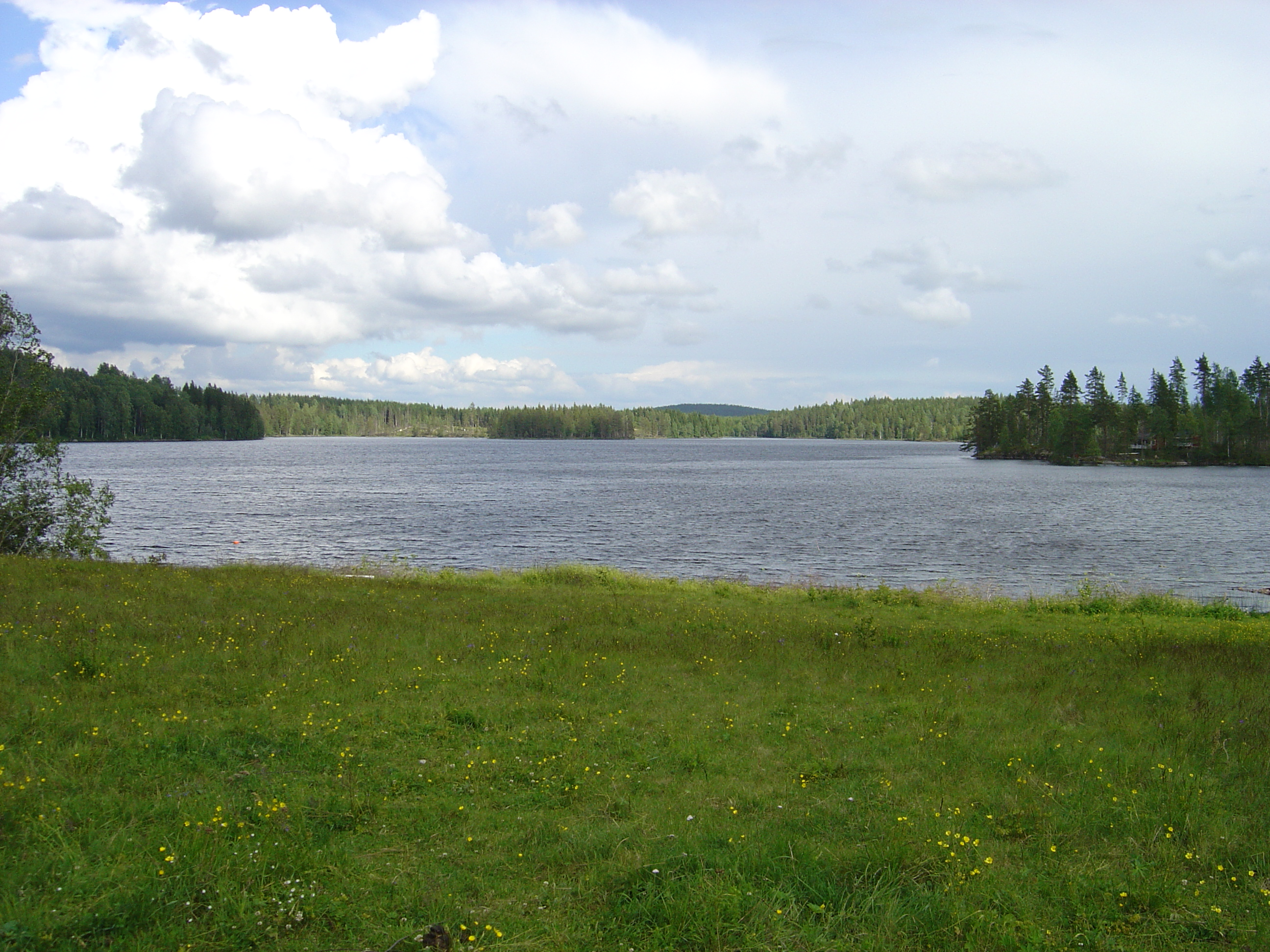 the lake Fraggen, seen from west